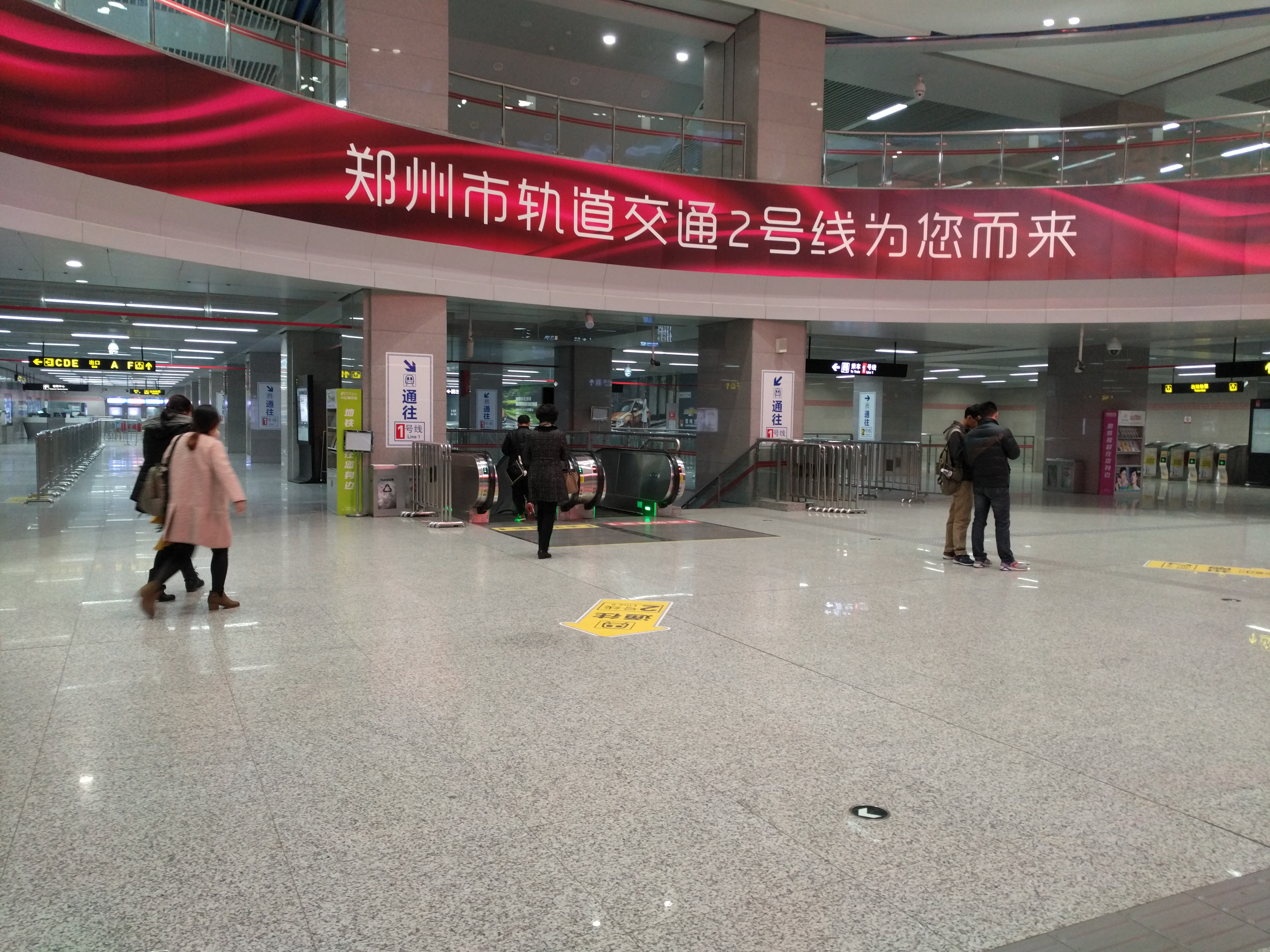 Hall of Zijingshan Sta. of Zhengzhou Metro.